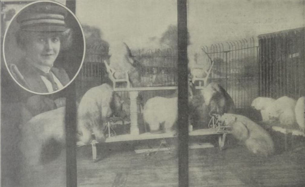 Austrian circus performer Tilly Bébé and her sloth of polar bears, 1913